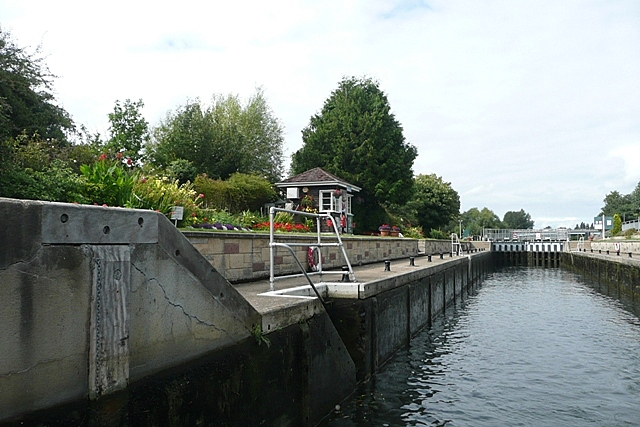 Chertsey Lock Only a 4 foot fall and with only us in it Chertsey Lock was soon completed.